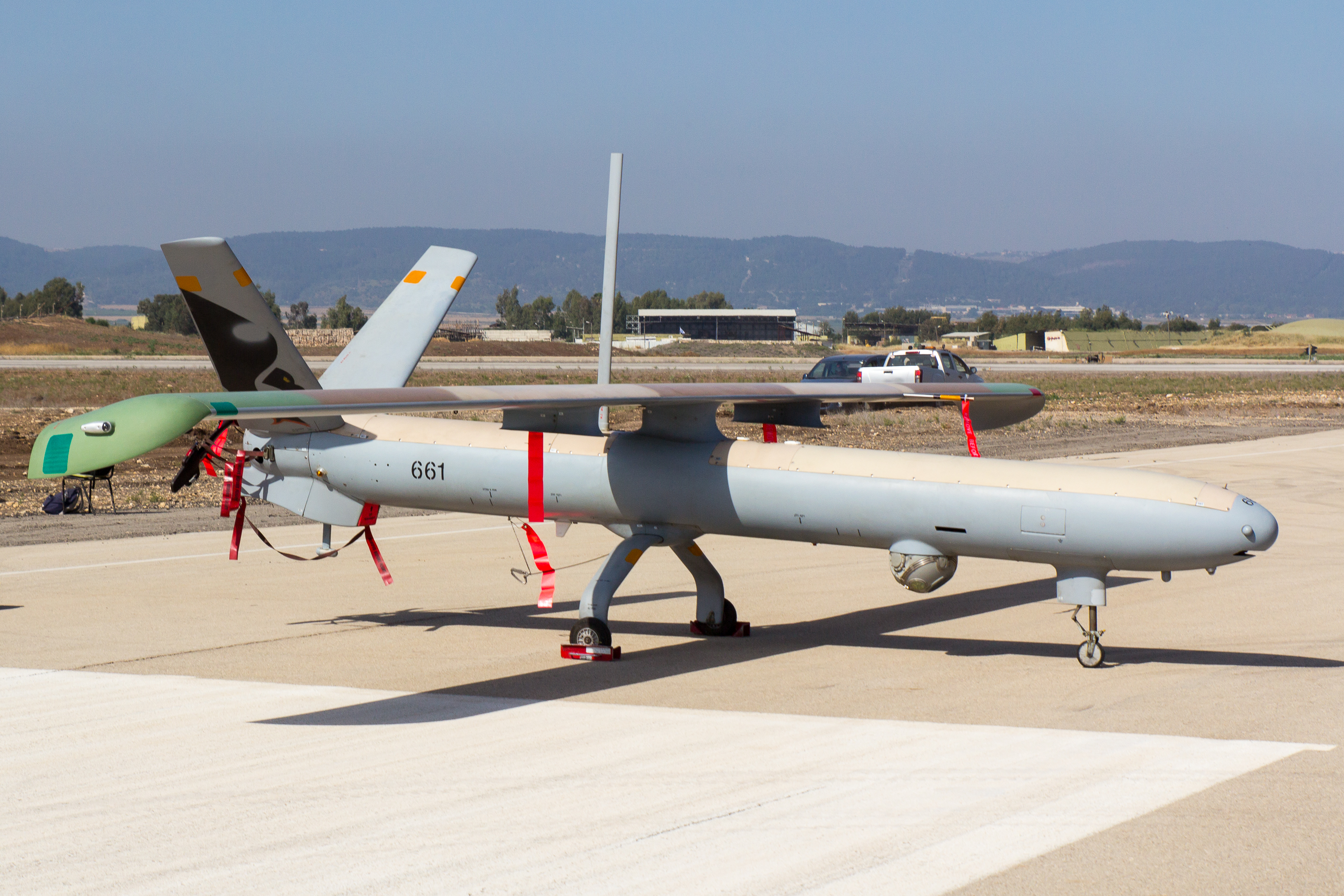 Elbit Hermes 450 at the Israeli Air Force exhibition at Ramat David AFB on Israel's 69th Independence Day